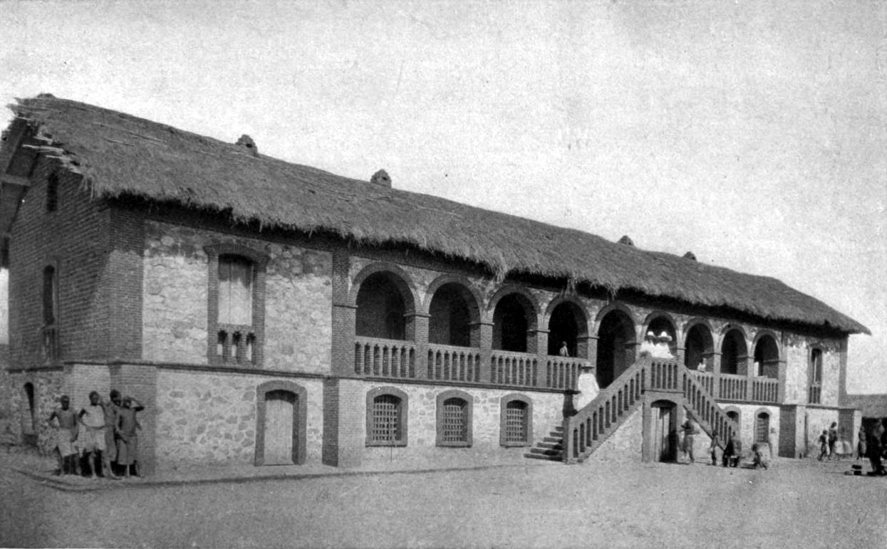 Mission of the White Fathers, Tanganyika [Province] - p. 314